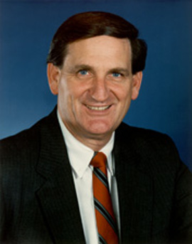 From the Biographical Directory of the United States Congress